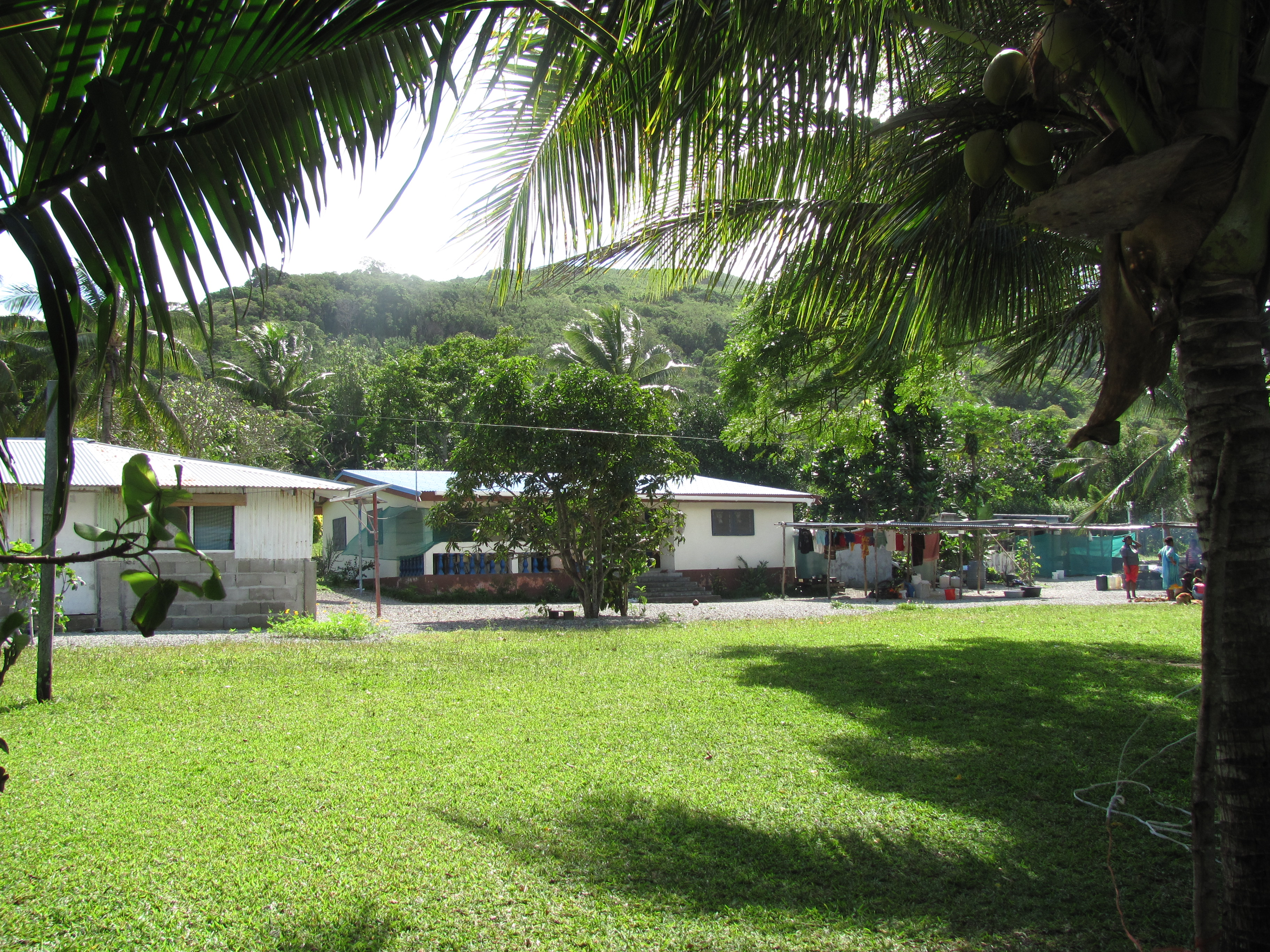 Village centre of Natapao, Lelepa Island,Vanuatu